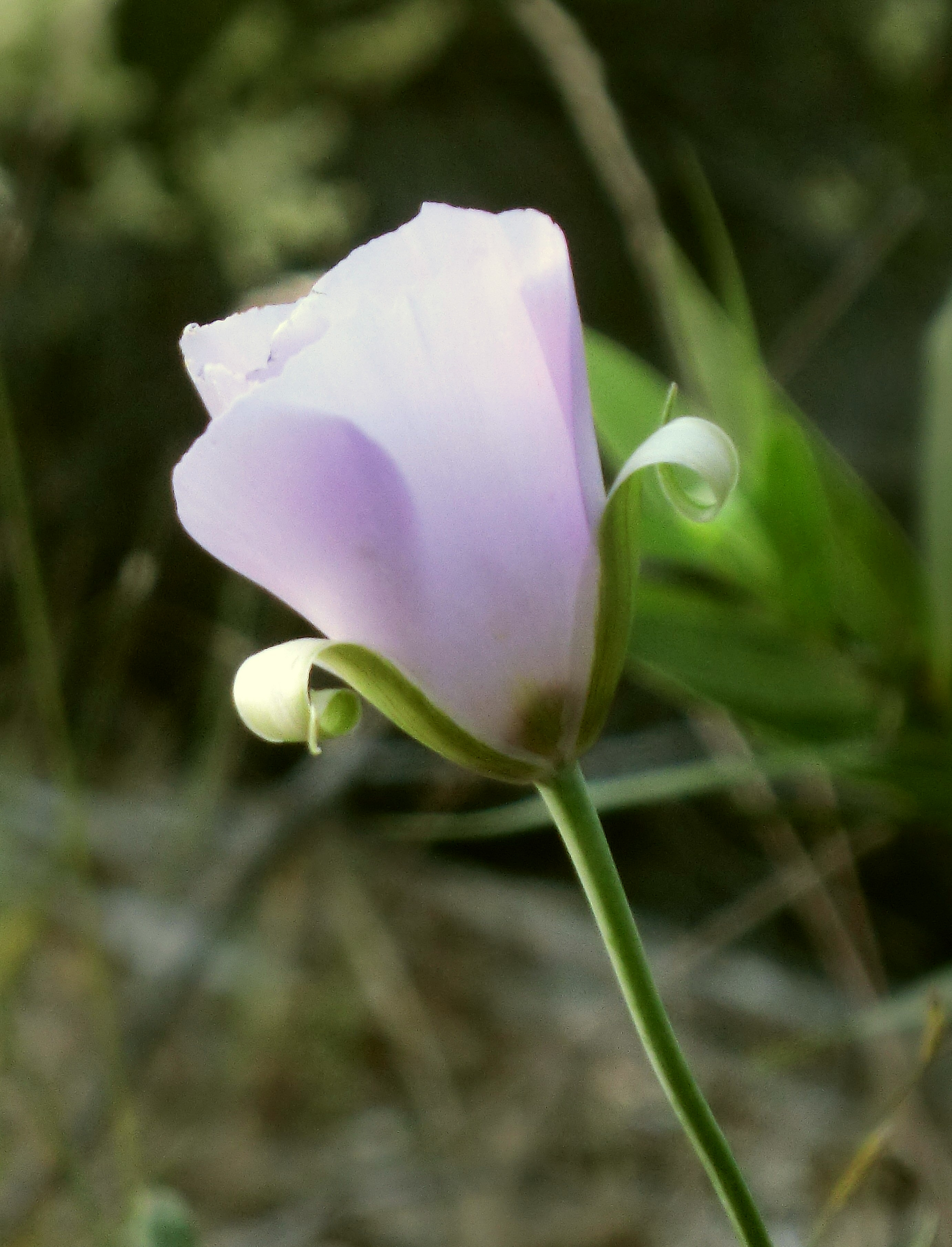 Calochortus splendens — Splendid Mariposa lily. On the Blue Ridge Trail, Stebbins Cold Canyon Reserve, Inner Northern California Coast Ranges, California.